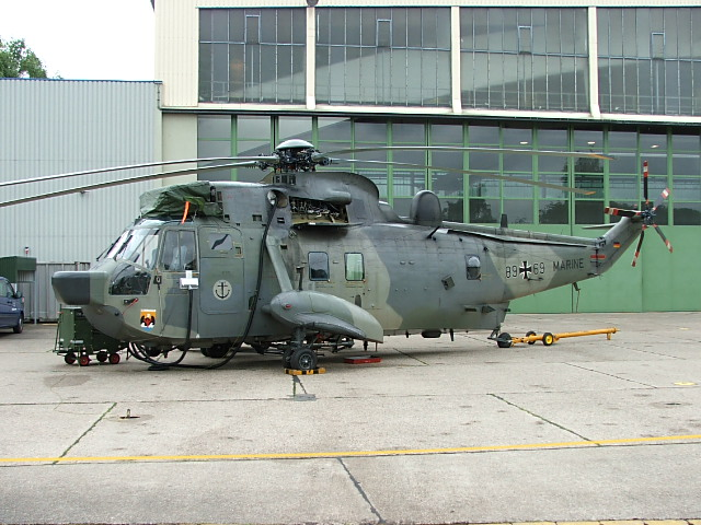 German Westland Sea King SAR helicopter in action. Kiel, Germany. 2005 /PAJ